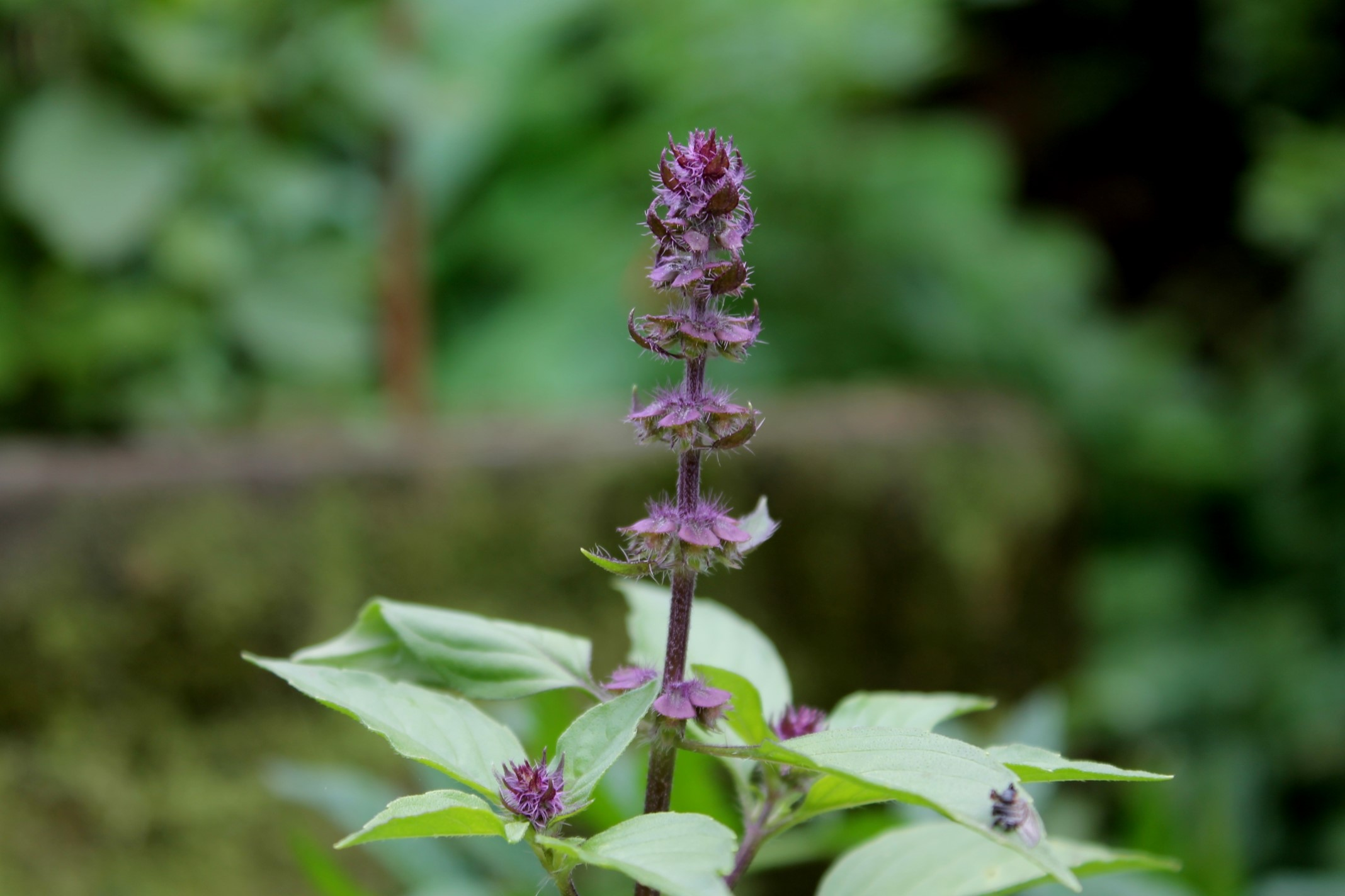 Babari Herb